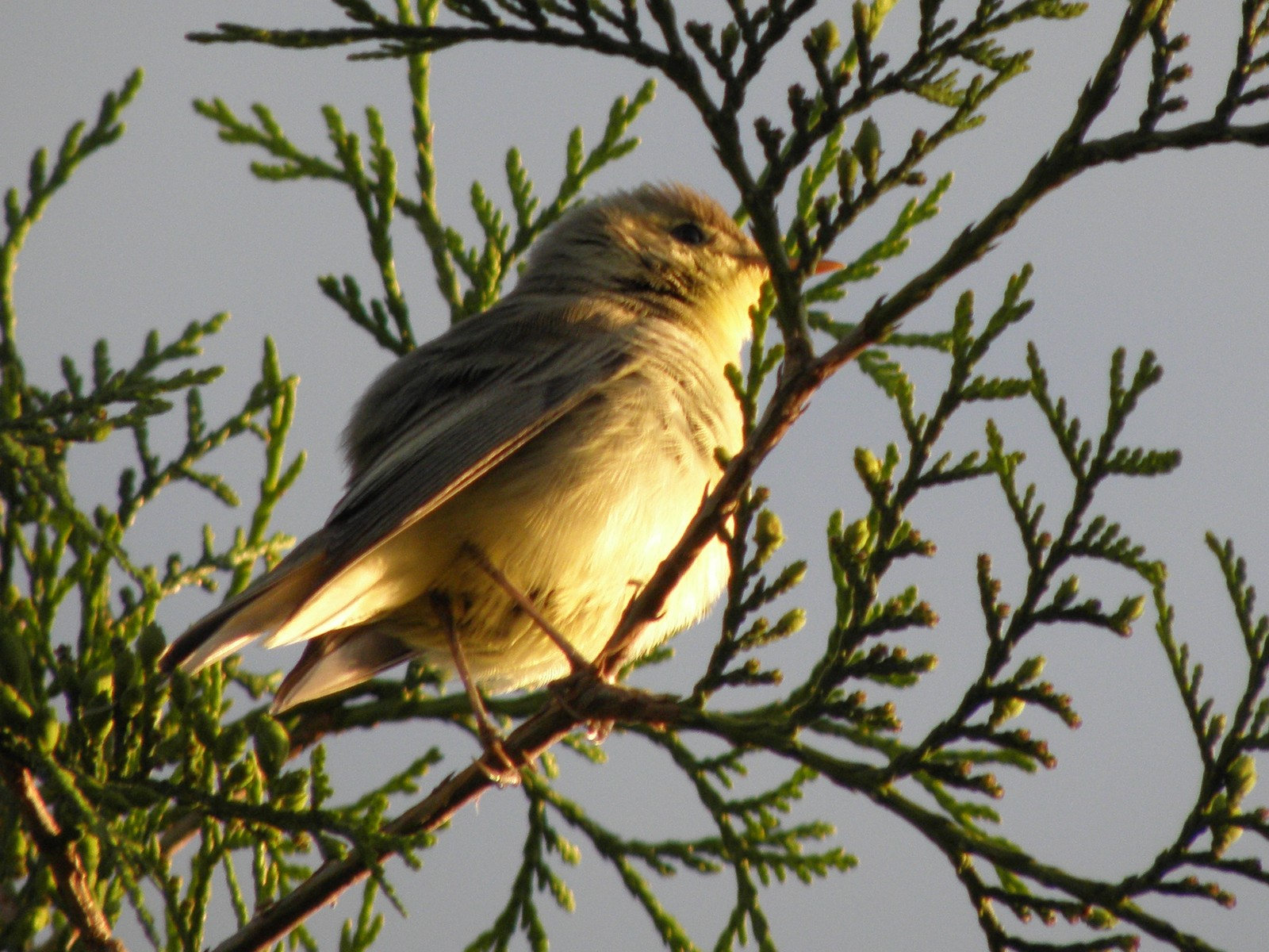 Hippolais icterina